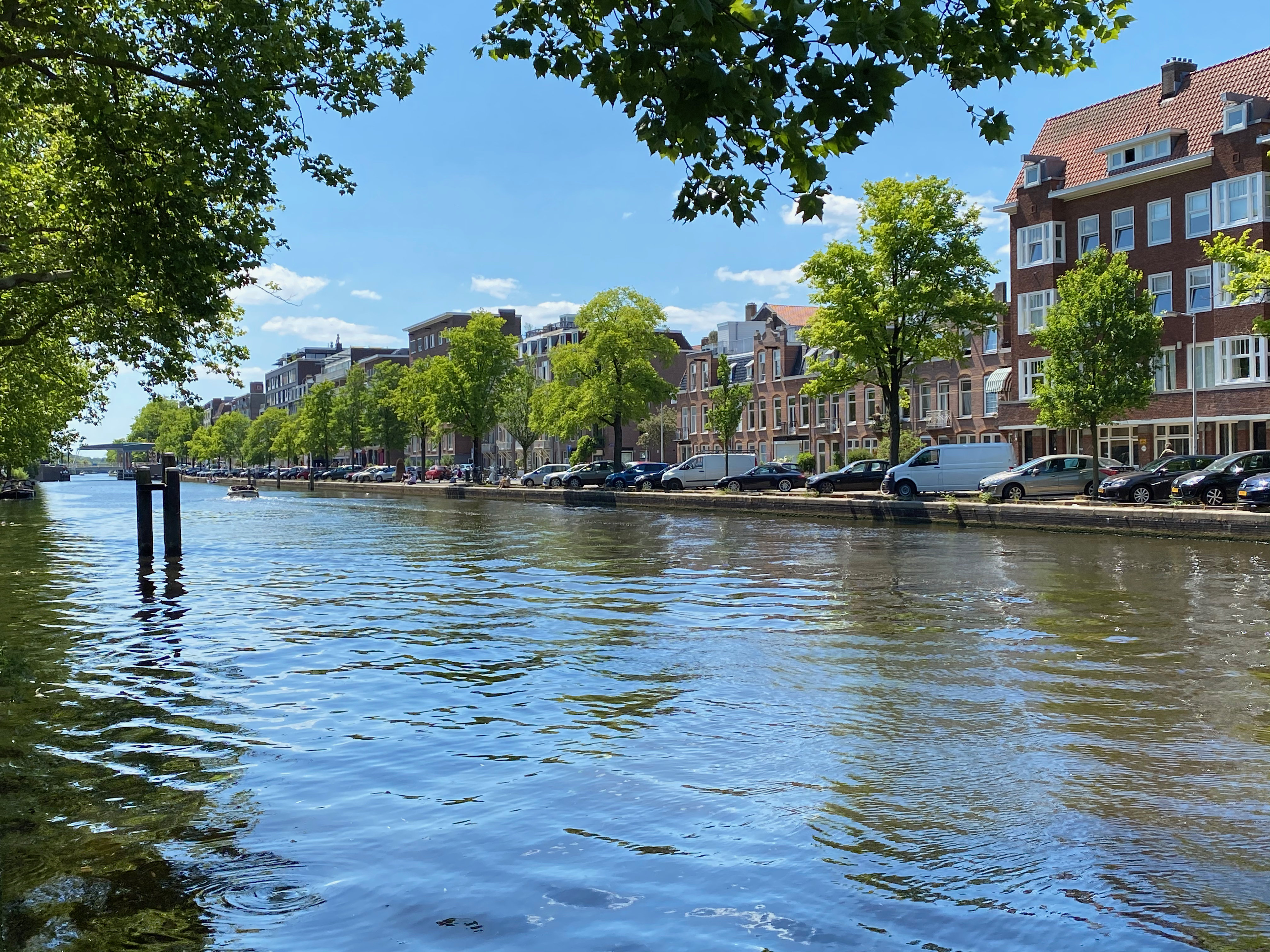 Schinkel River, Schinkelbuurt, Oud-Zuid, Amsterdam